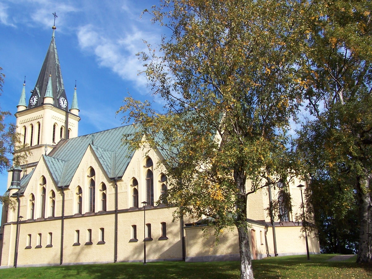 Skönsmon church, Sundsvall, Sweden